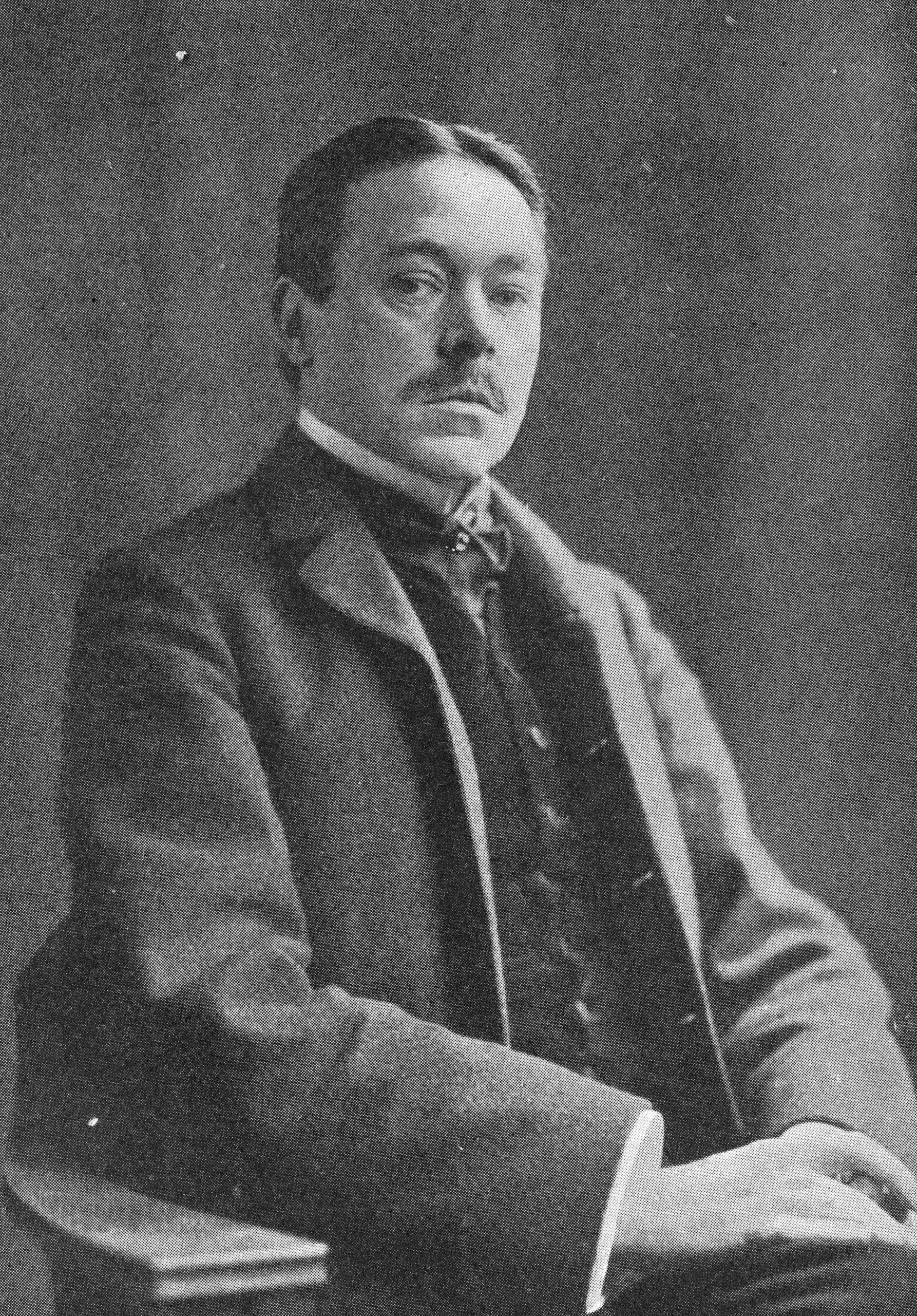 Swedish author Hjalmar Söderberg.